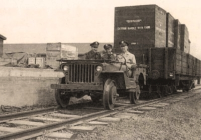 Jeep switch engine used by soldiers during a test run on a 1 meter narrow gauge track in Brisbane, Australia on 30 June 1943: A ¼ ton jeep fitted with rail wheels can easily pull 20.000.000 pounds. The main purpose of these rail jeeps was to haul flatcars loaded with supplies in New Guinea. This demonstration was held at Eagle Farm Aerodrome in Brisbane, Australia. At the wheel is Brig Gen C W Connell, Commanding General, Air Service Command. To his right are LTC Donald Thomas, Boise, Idaho and LTC R L Fry, Pocatella, Idaho. Brisbane, Australia, 30 June 1943.